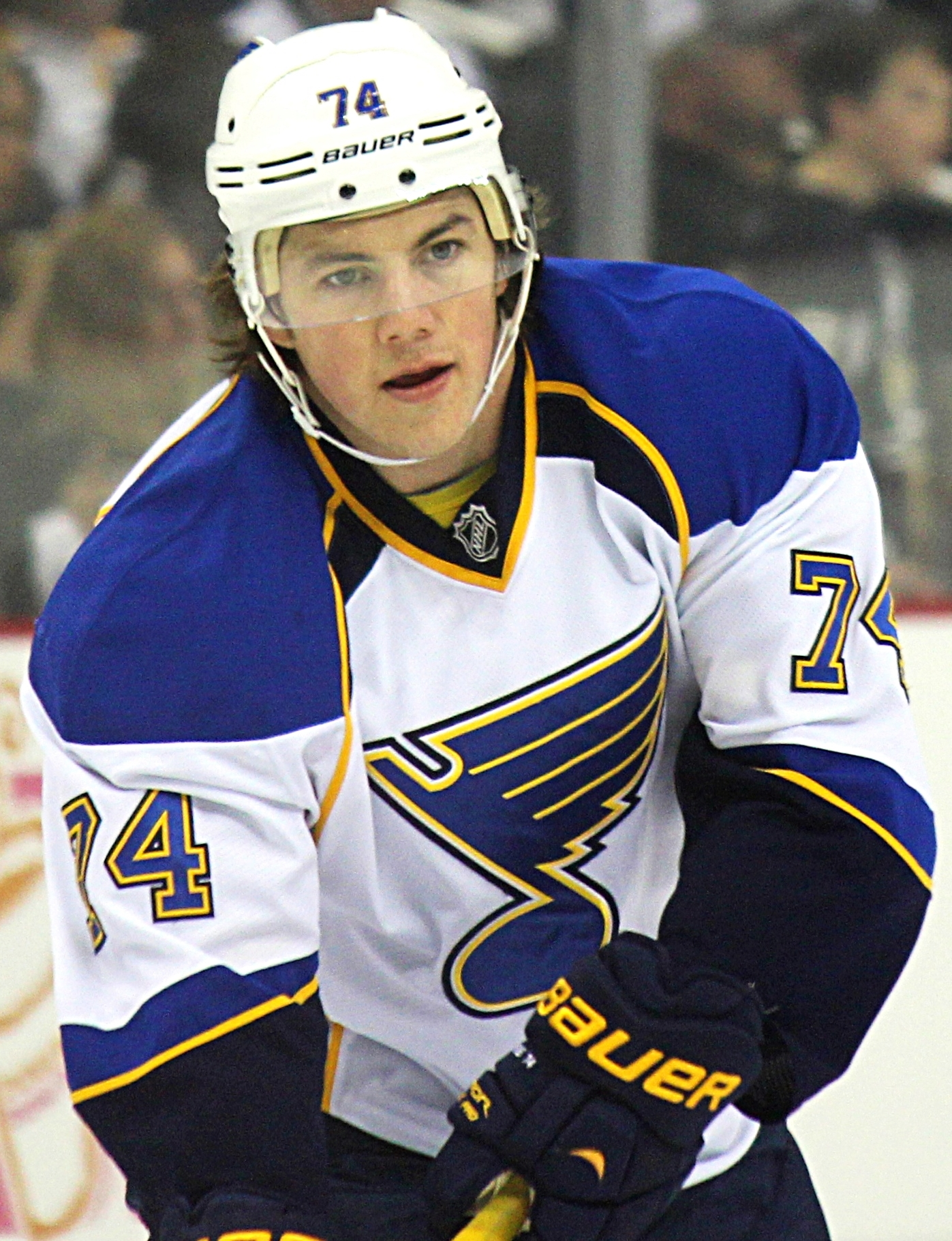 St. Louis Blues forward T.J. Oshie warms up before a game against the Pittsburgh Penguins, March 23, 2014, at Consol Energy Center in Pittsburgh, PA.